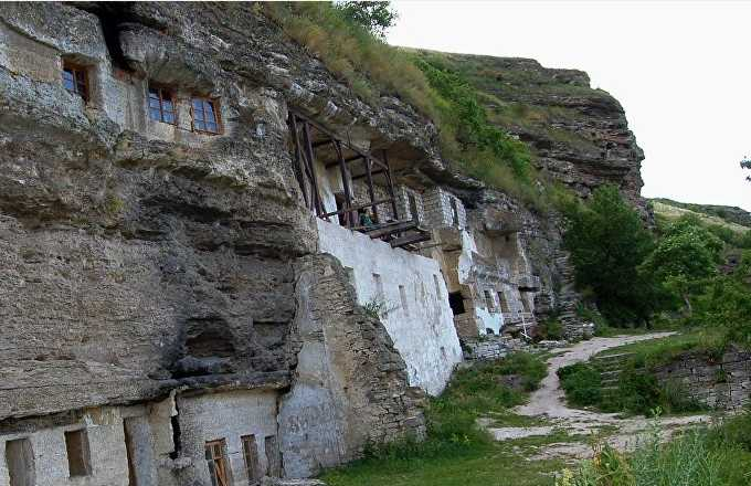 Tipova monastery